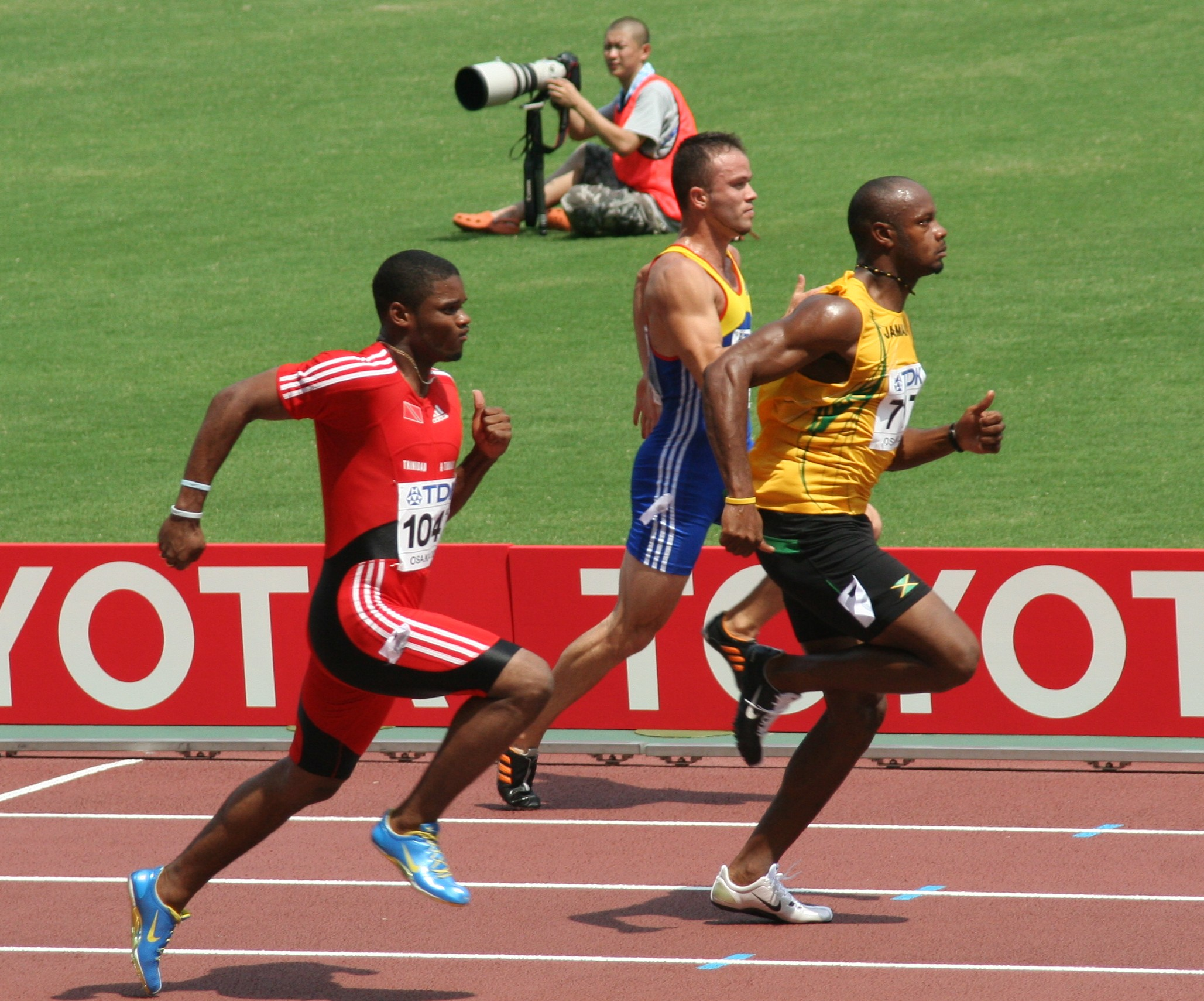 World Athletics Championships 2007 in Osaka - World Record Holder Asafa Powell running away from Keston Bledman (left) and Florin Suciu (middle) during the first round heat in the men's 100 meters.